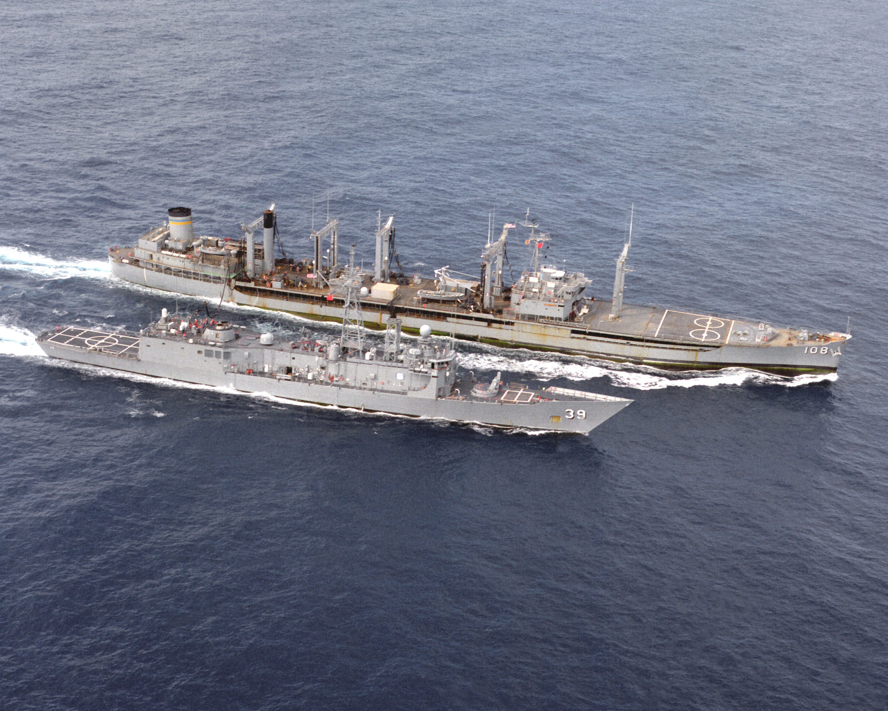 The U.S. Military Sealift Command fleet oiler USNS Pawcatuck (T-AO-108) conducting an underway replenishment with the guided missile frigate USS Doyle (FFG-39) at the equator on 9 October 1990.